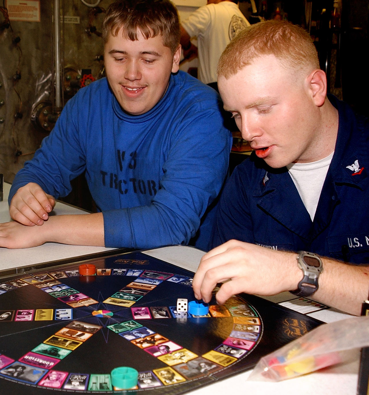 Mediterranean Sea (Mar. 5, 2003) -- Airman Eric Micolichek and Machinist’s Mate 3rd Class Walter Blackburn play Trivial Pursuit during game night aboard the aircraft carrier USS Harry S. Truman (CVN 75). Truman and her embarked Carrier Air Wing Three (CVW-3) are deployed in support of Operation Enduring Freedom. U.S. Navy photo by Photographer's Mate Airman Dustin Gates. (RELEASED)